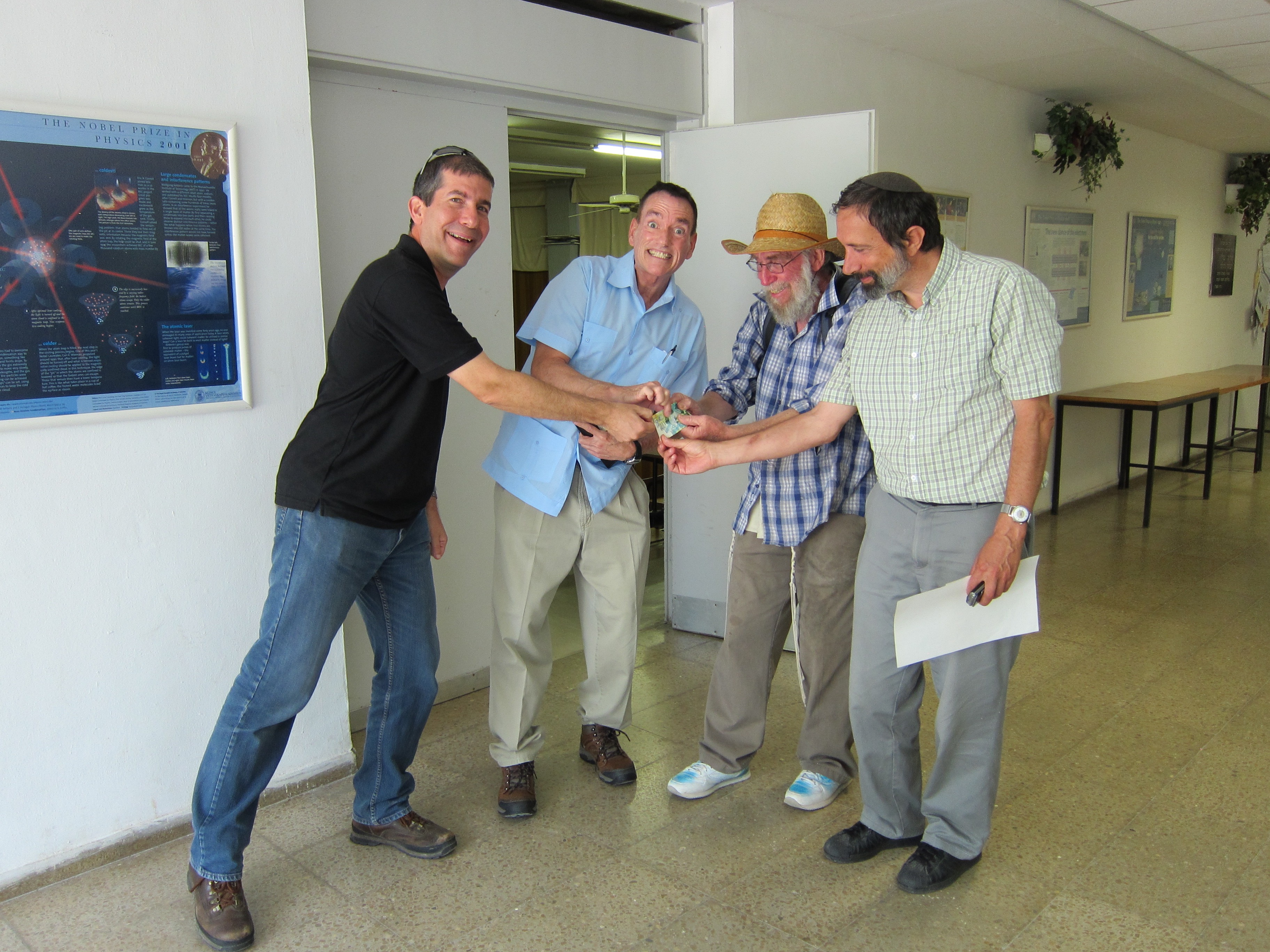 Wiesner is a founder of quantum information theory and the inventor of quantum money. Photo was taken at the Hebrew University of Jerusalem in June of 2015.